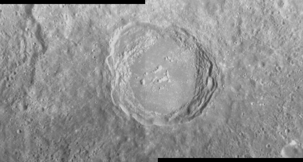 Futabatei crater on Mercury. Mosaic of two MESSENGER Narrow Angle Camera images (EN1005887411M, EN1005887413M). Brightness has been decreased and contrast increased. Approximate north is up. Width is approximately 159 km. Statistics below apply to approximate center of mosaic: Emission Angle: 1.6 Incidence Angle: 45.3 Latitude: -16.2 Longitude: 276.4 Phase Angle: 45.4